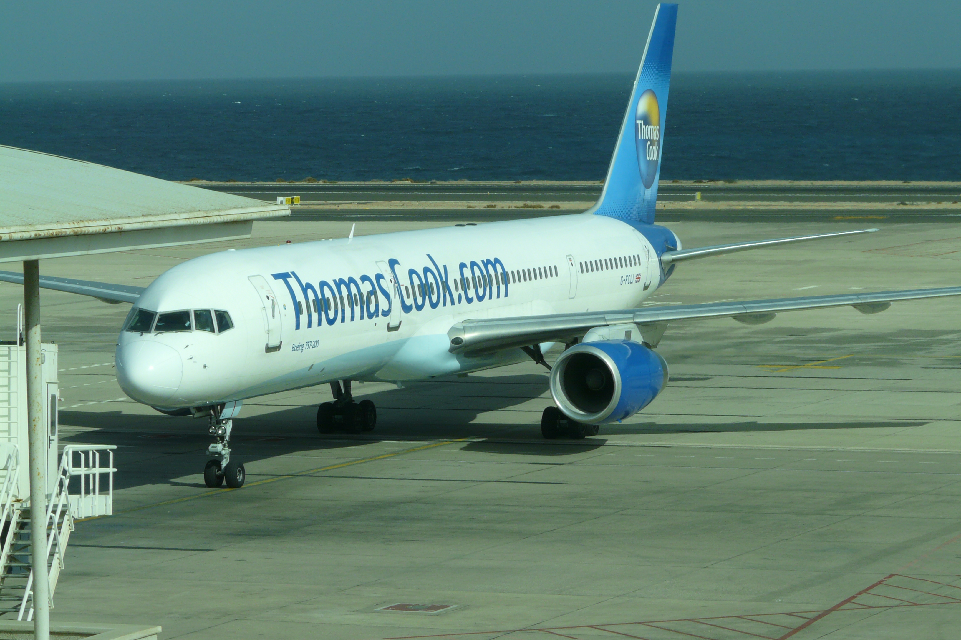 Thomas Cook B757-200 G-FCLI